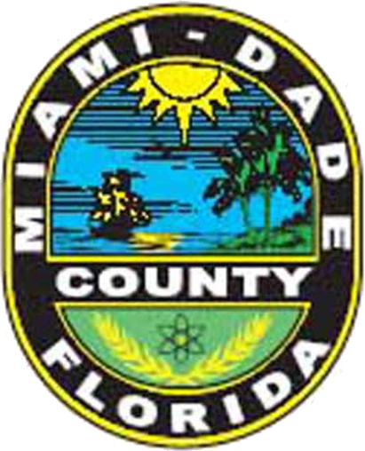 Seal of Miami-Dade County, Florida